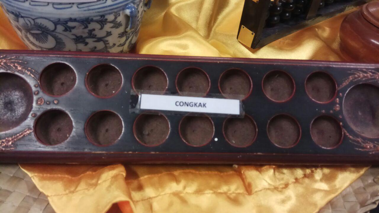 Congkak